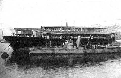 Former Russian imperial yacht Livadia hulked in Sebastopol. It was hulked in 1883. The destroyer (actually it's a minelayer) Kazarsky in front of it was built in Germany in 1890.